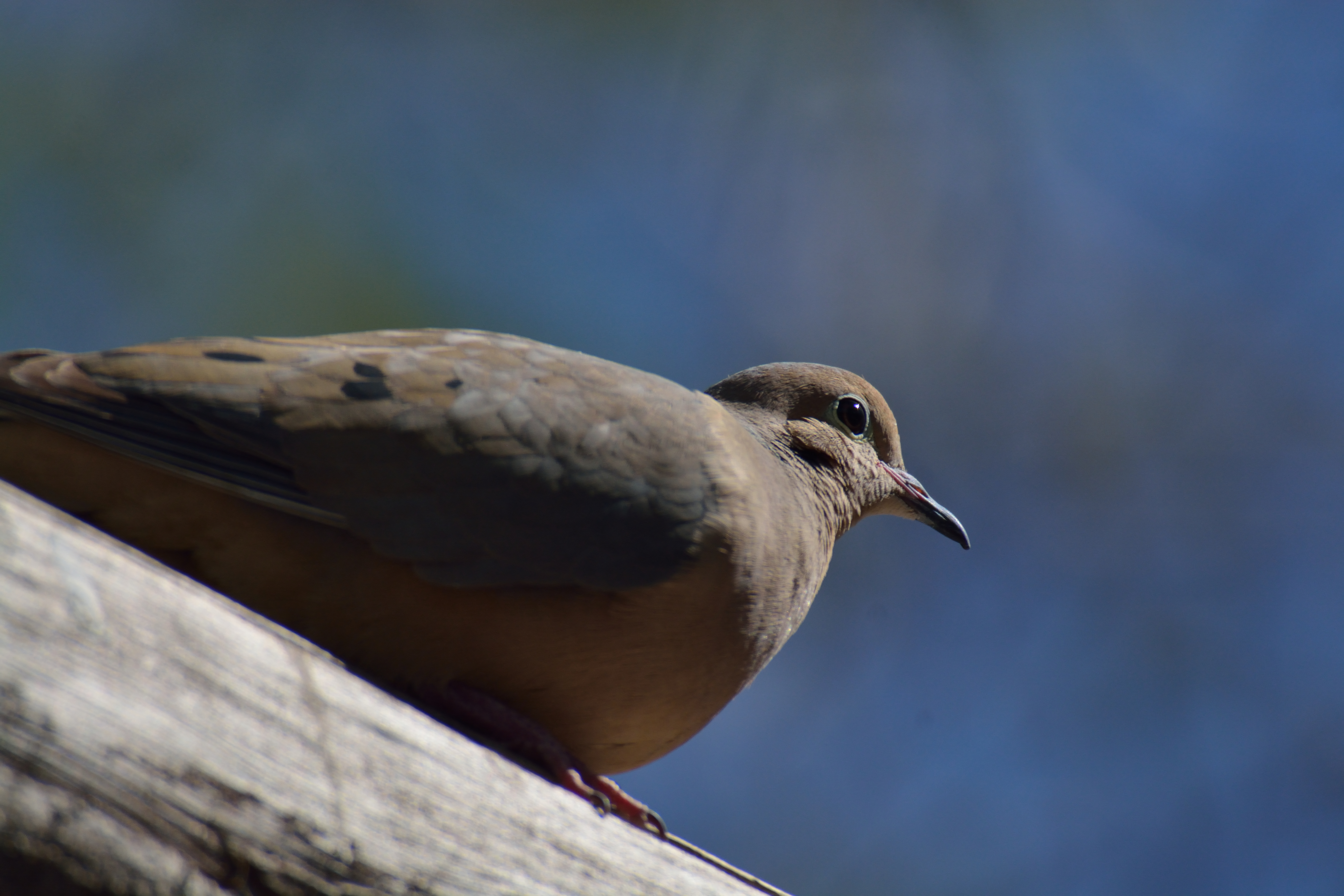 Mourning Dove (Palomita sorda) in Hermosillo, Sonora, Mexico